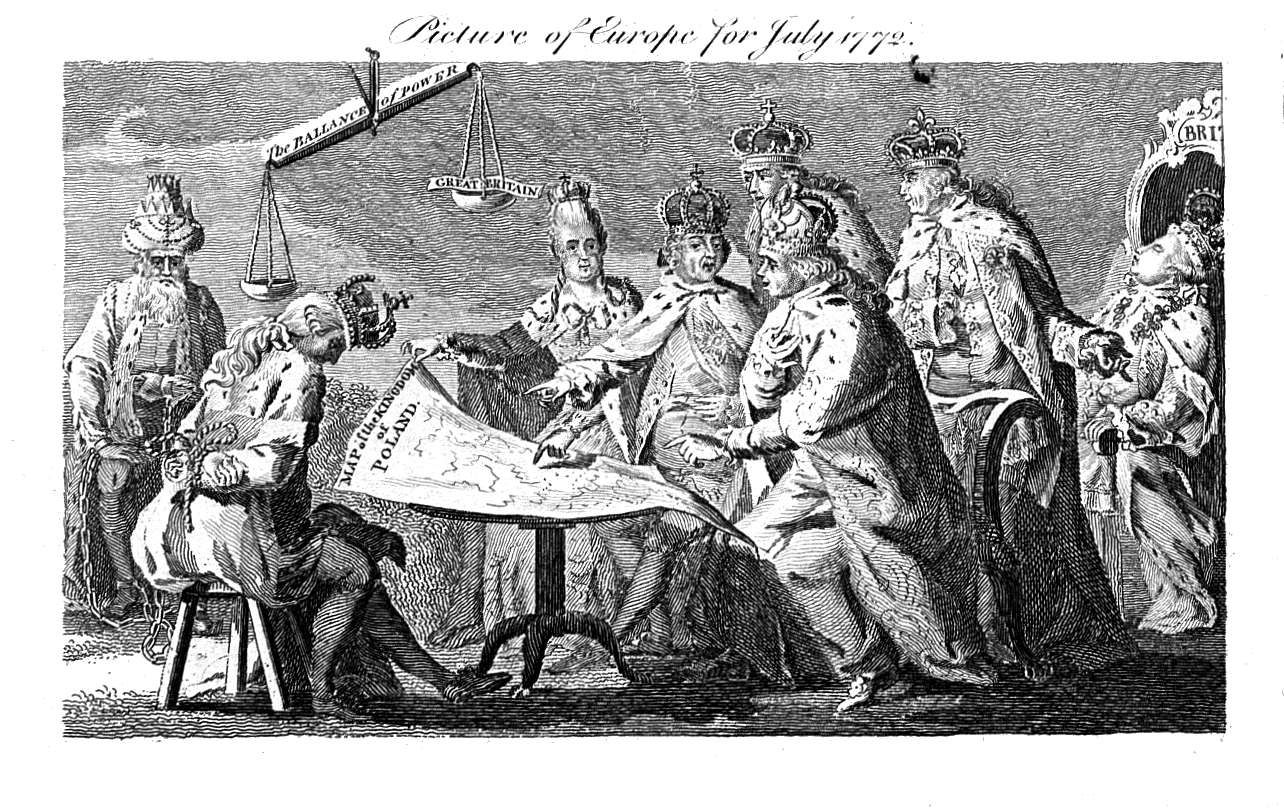 Picture of Europe for July 1772. Allegory of the 1st partition of Poland. Русиньскый: Первый роздѣл Польщи (1772) на тогочасной англицкой карикатурѣ, Катерина ІІ. Велика (Россия), Фридрих ІІ. Великый (Пруссия) и Йозеф ІІ. (Австрия) дѣлять Польщу при тихом сугласѣ султана Мустафы ІІІ.; британскый краль Георг ІІІ., одсунутый на задный план, омдлѣв; симболичны вагы указують слабость Великой Британии